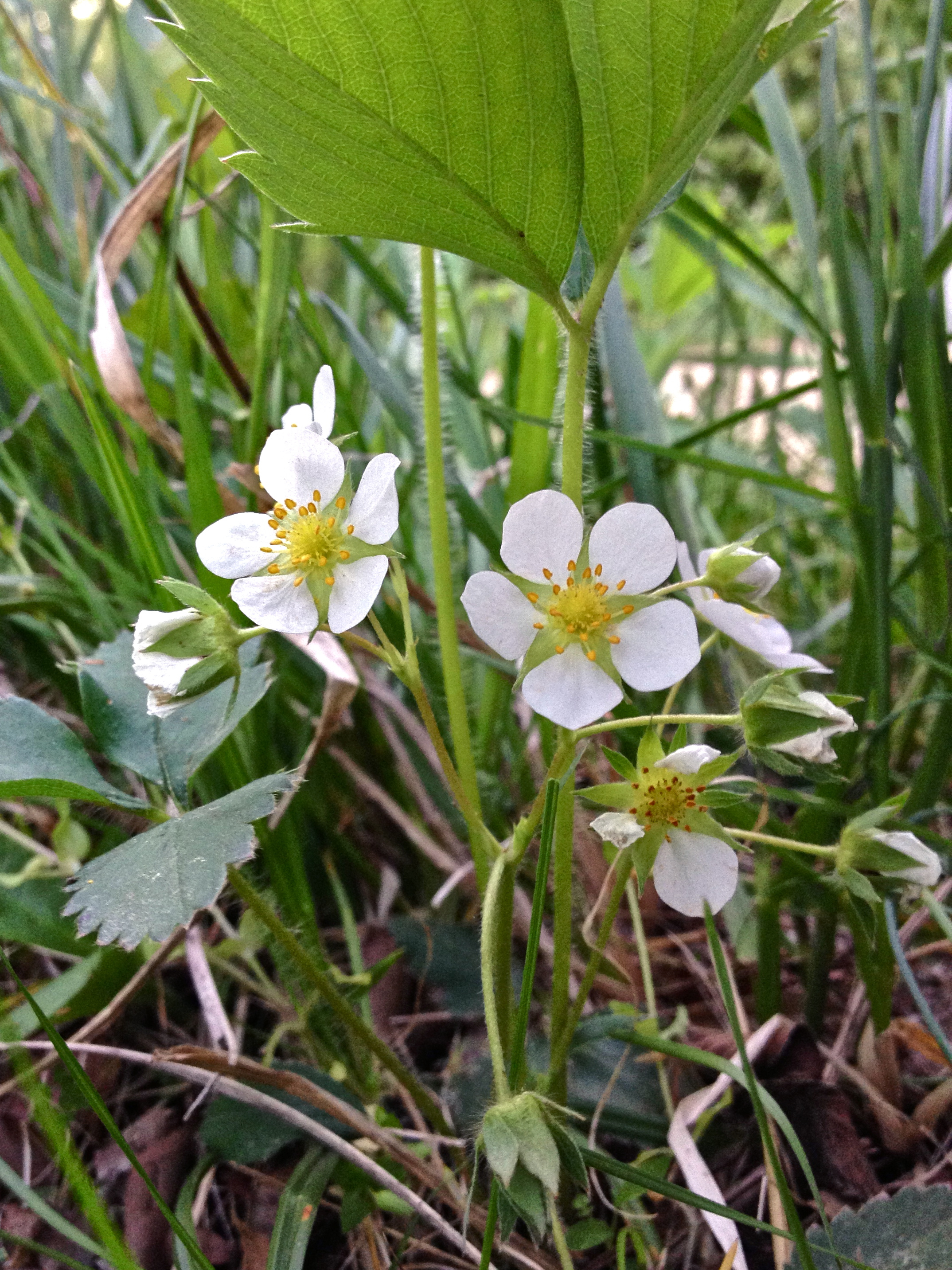 Photo of Fragaria virginiana in flower. This is a native plant growing wild in the C & O Canal National Historical Park, in Montgomery county Maryland, USA. This species is a member of the Rosaceae family.